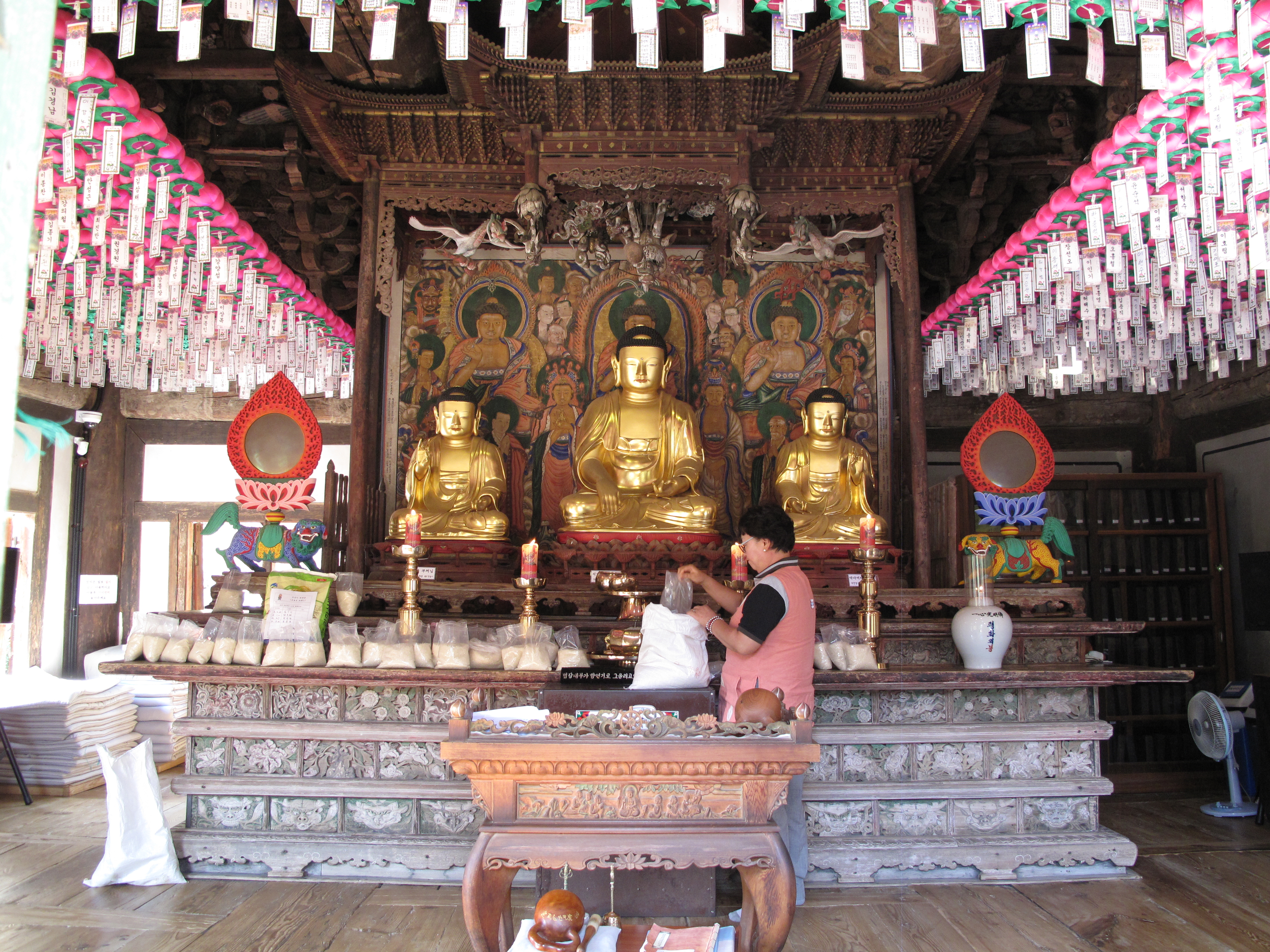 Three Buddhas (Shakyamuni in the center) are placed on the altar. Above are votive strips of name-paper, payed for by purchasing the offerings (rice bags, in this case) arranged below the Buddhas.